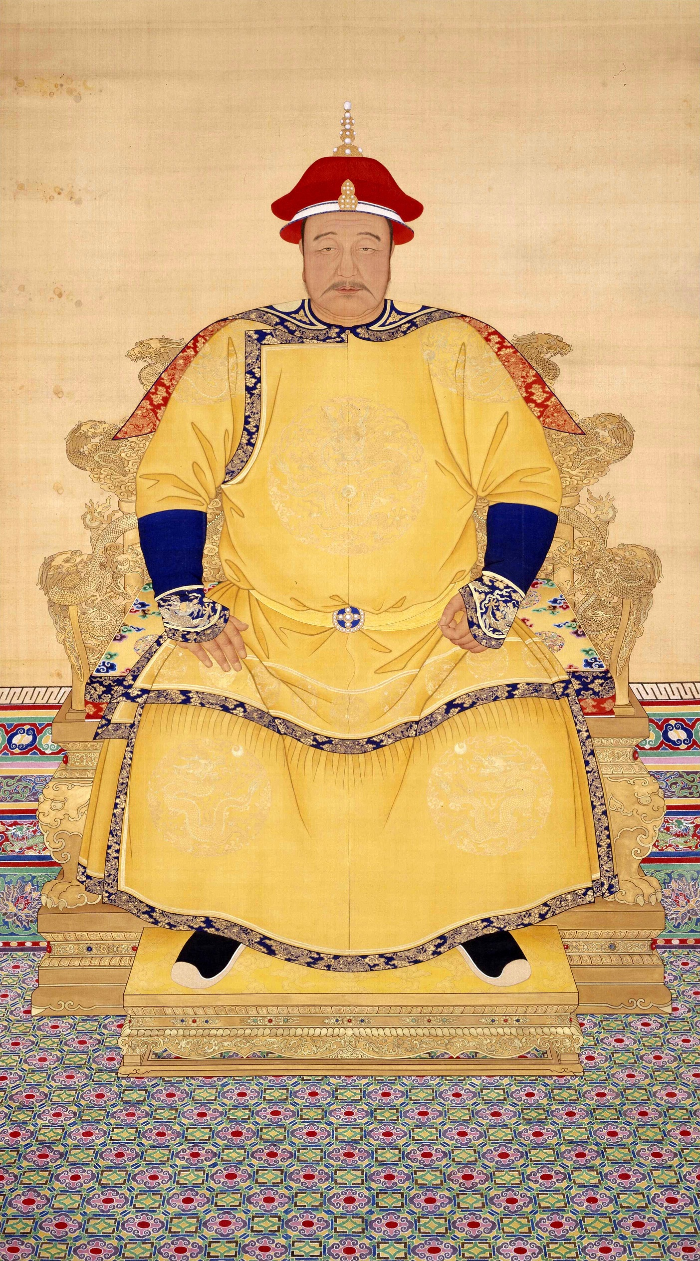 Portrait of Hong Taiji (1592-1643)